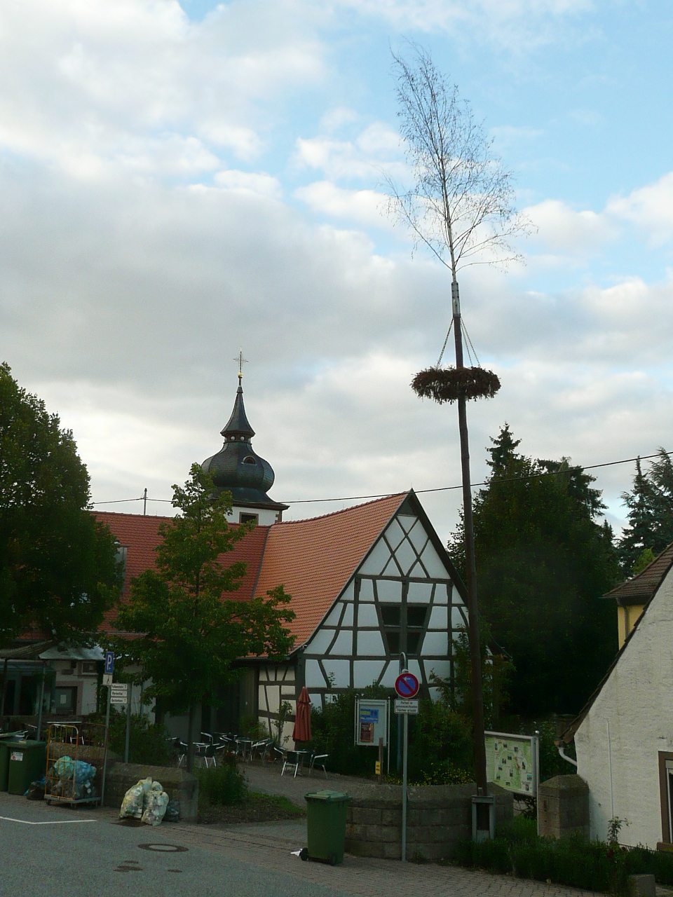 Timber house and Maypole in Dannenfels, Palatinat, Germany